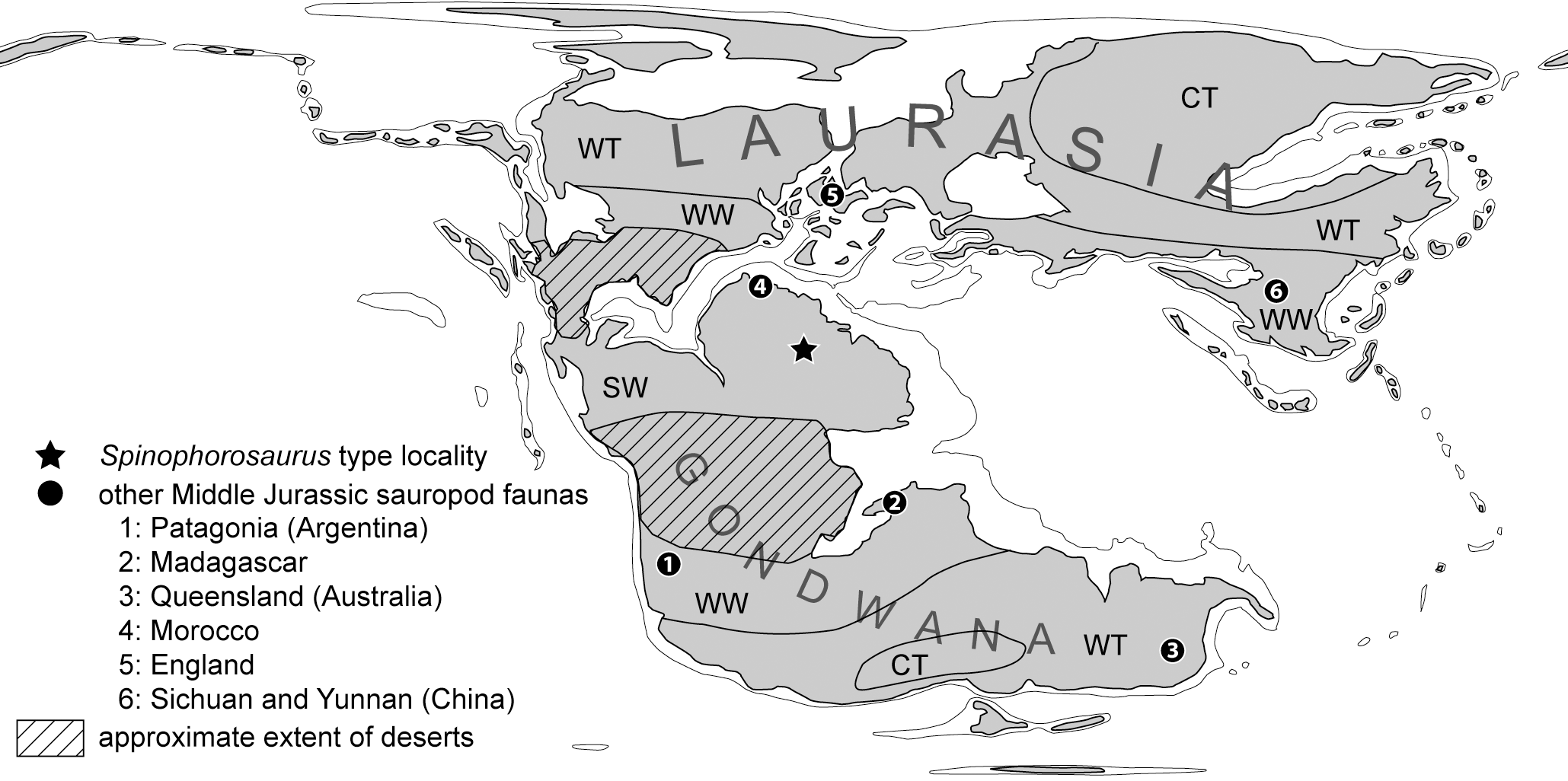 Congruence between Middle Jurassic sauropod distribution and paleoclimatic zones. Although standing close to the origin of Eusauropoda, Spinophorosaurus exhibits strong similarities to East Asian Middle Jurassic sauropods (Shunosaurus, 6), and much less so to South Gondwanan forms, e.g. the late Lower Jurassic Barapasaurus from India and the late Middle Jurassic form Patagosaurus (1). The explanation is a separation of global sauropod faunas during the Lower Jurassic by the Central Gondwanan Desert (CGD), forming two different paleobiogeographical domains. Neosauropods had their origin in the same climatic zone as Spinophorosaurus and gained global distribution in late Middle Jurassic times (Atlasaurus, 4; Bellusaurus, 6; Lapparentosaurus, 2; Tehuelchesaurus, 1). Map redrawn after [48] and [75]. Abbreviations: CT, cold temperate climate; WT, warm temperate climate; SW, summer-wet climate; WW, winter-wet climate.